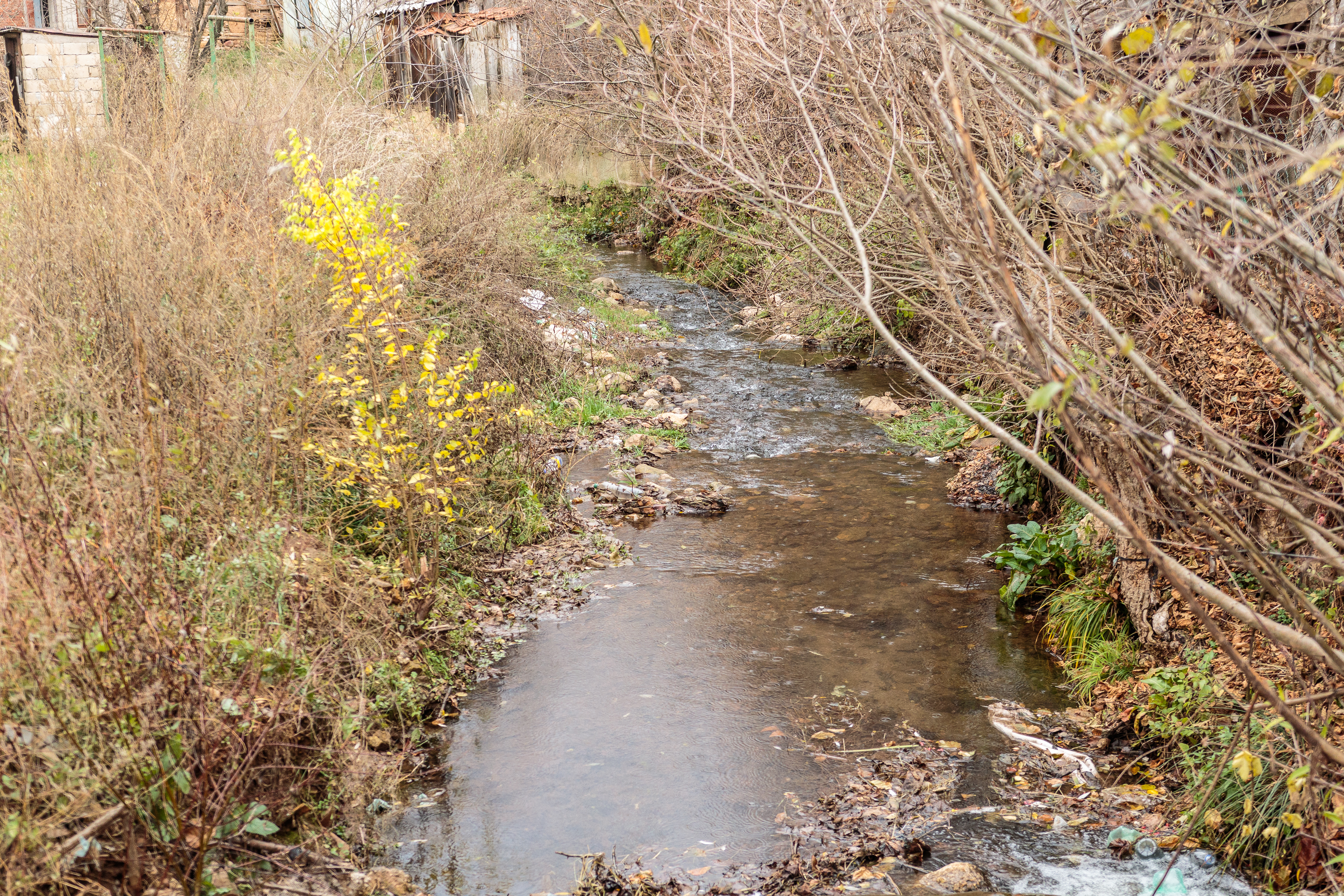 Negrevčica in the village of Čiflik, Maleševija, Macedonia